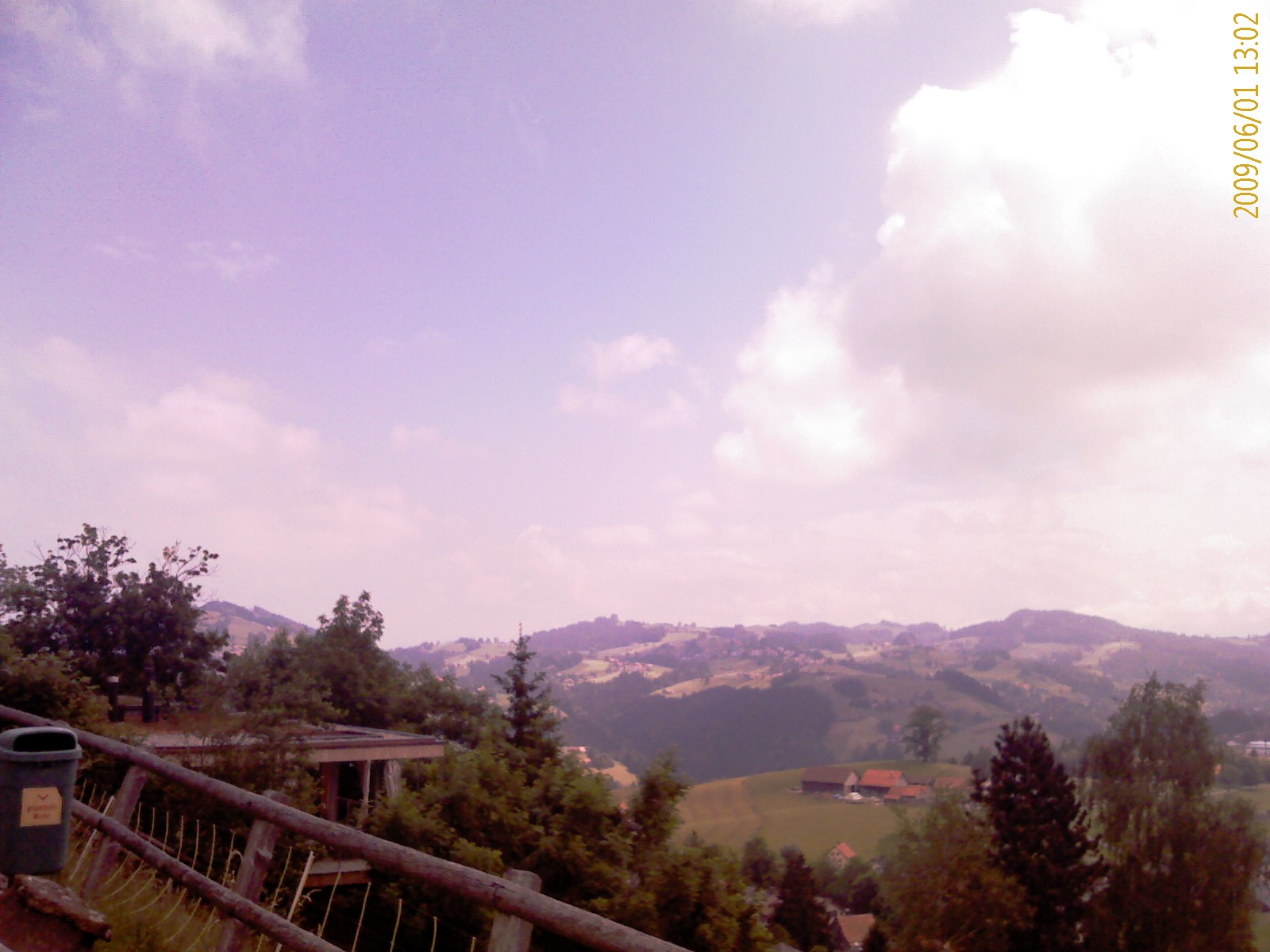 Panoramic view from Vögelinsegg, Speicher, canton of Appenzell Ausserrhoden, SwitzerlandEsperanto: Panorama vido ek de Vögelinsegg en Speicher, Kantono Apencelo Ekstera, Svislando